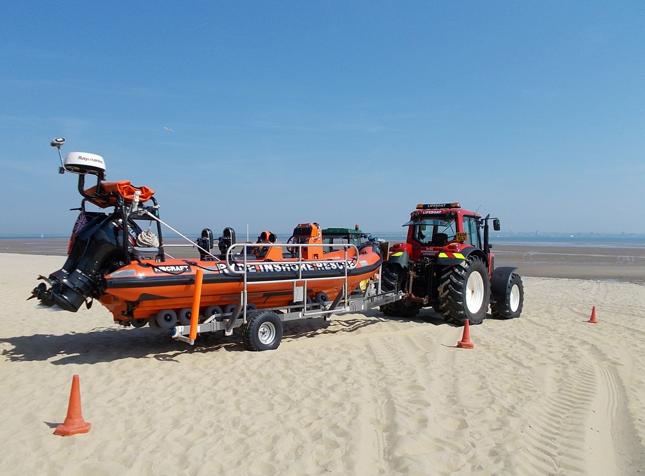 Ryde Inshore Rescue Service, Isle of Wight, UK. Rescue craft pictured on the beach outside the lifeboat station.